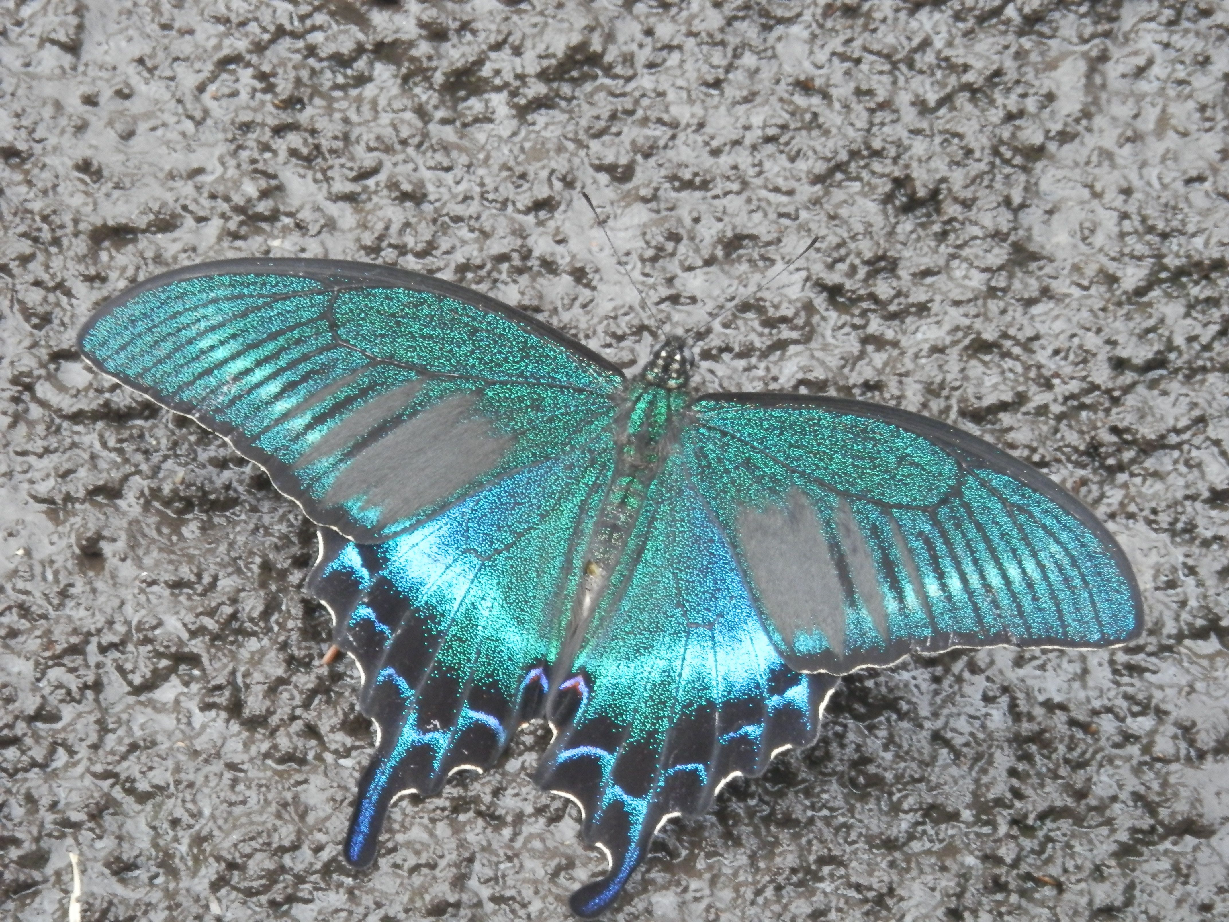 Papilio maackii (miyama karasu ageha) on Rishiri Island in Hokkaido